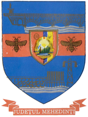 Communist coat of arms of Mehedinți County, Socialist Republic of Romania.